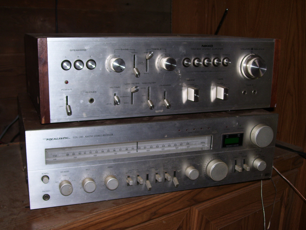 A Nikko Electric TRM-800 stereo audio amplifier (top), and Realistic ST-240 stereo receiver/amplifier